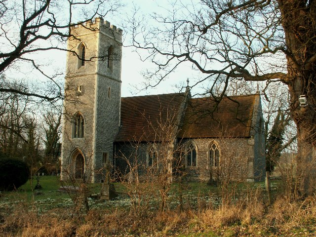 St. Catherine's Church - Sacombe, Hertfordshire. Although changed greatly by the Victorians, the church of St. Catherine, Sacombe, dates back to the 14th century.